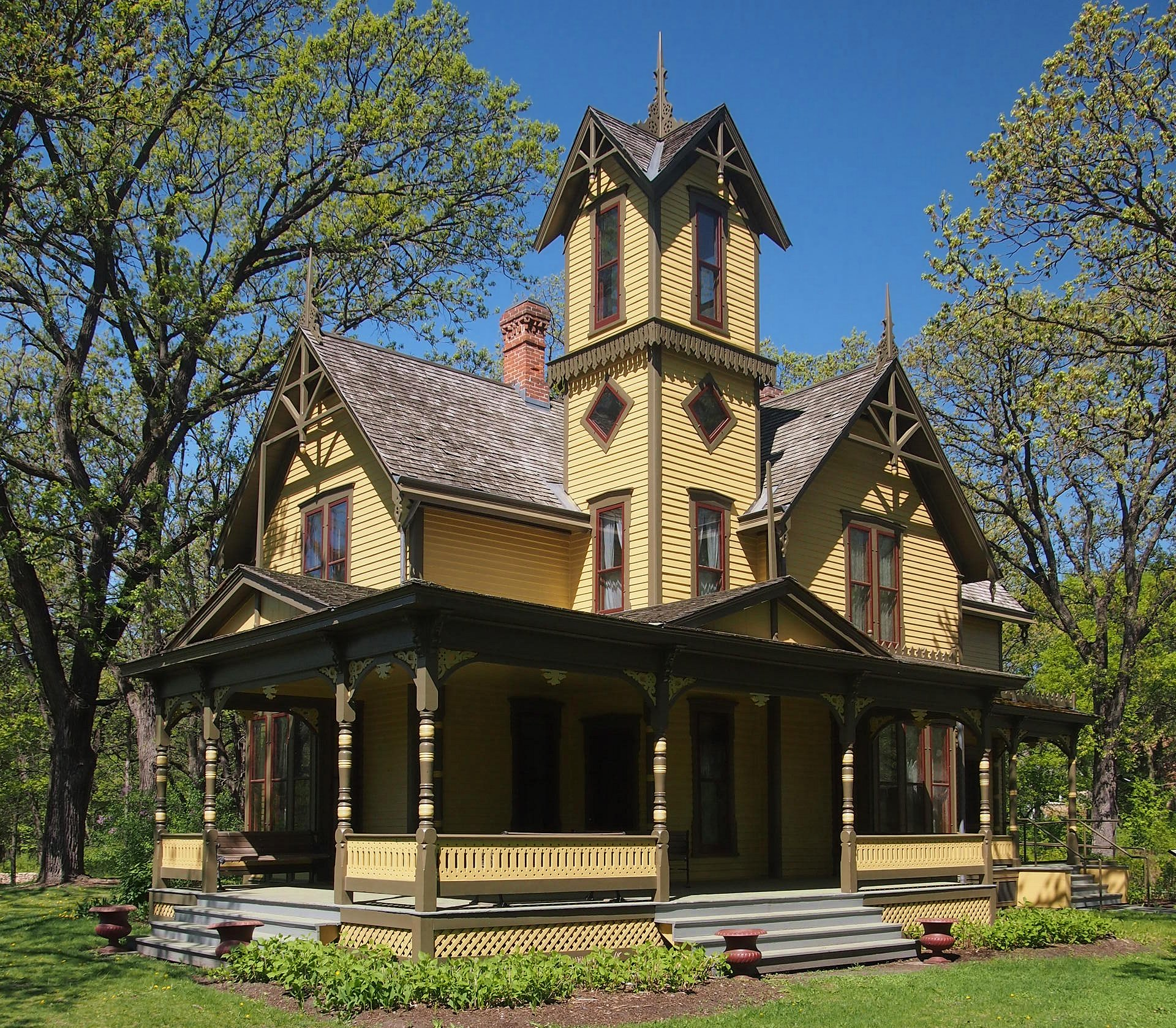 Charles H. Burwell House, 13209 E. McGinty Road, Minnetonka, Minnesota, United States. Viewed from the southeast.